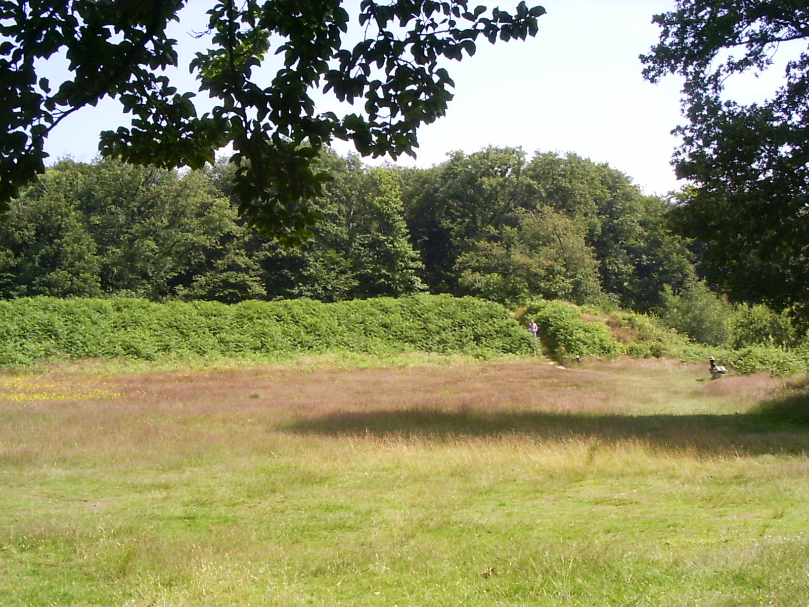 Hunneschans Heveadorp, interior